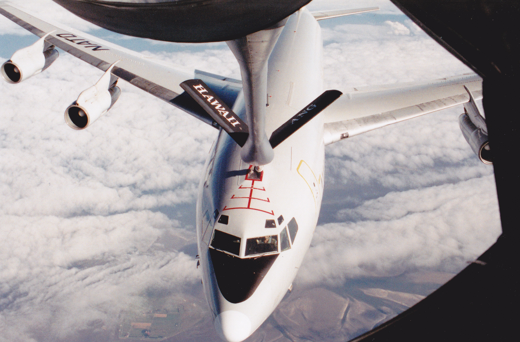 Refuelling a NATO Boeing707-TCA from a HI ANG KC-135R during a refuelling training mission from Geilenkirchen AB in September 1996